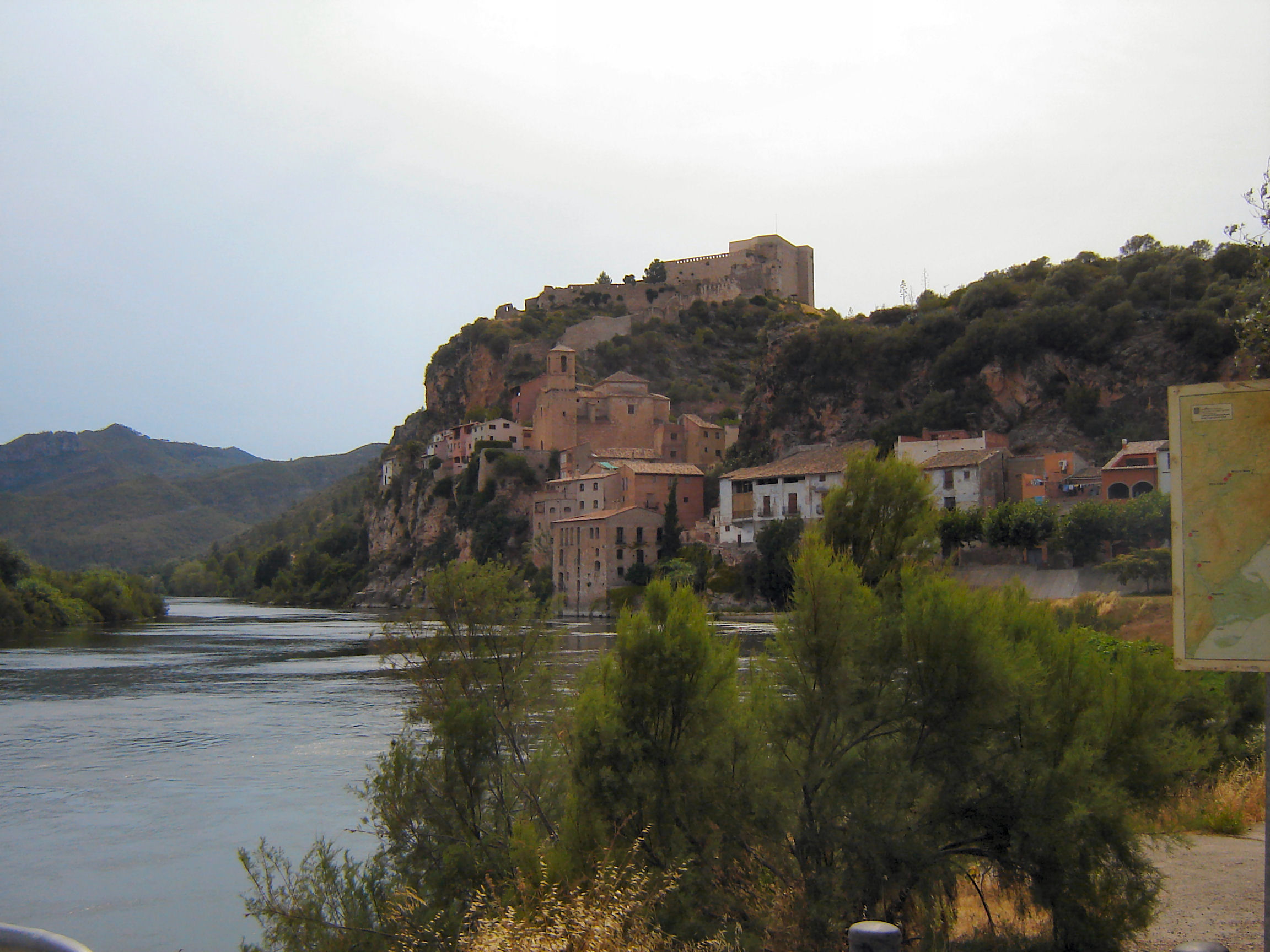 View on the village and the castle of Miravet, on the borders of the river Ebro.Miravet, comarca Ribera d'Ebre, Tarragona, Catalonia, Spain